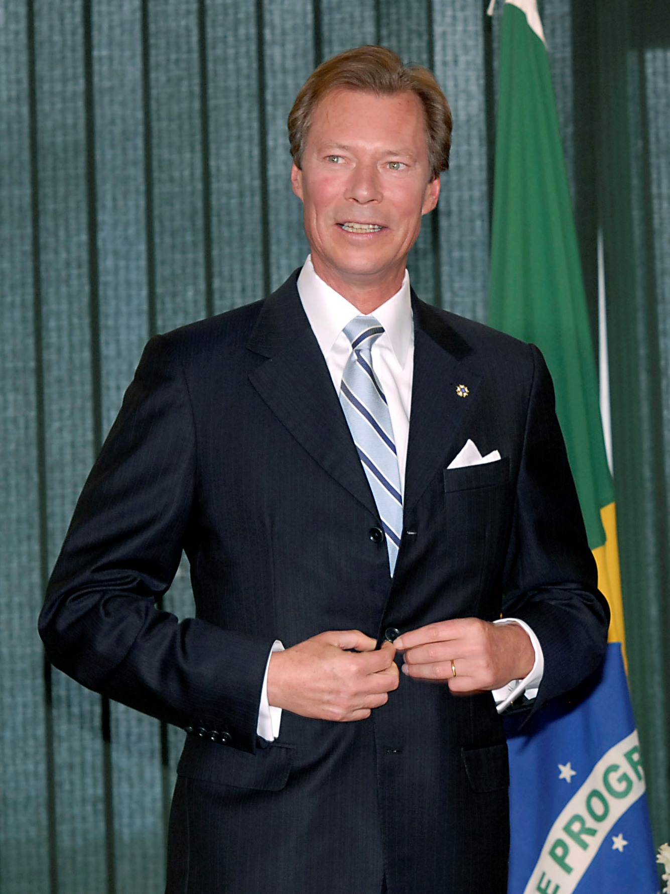 Henri, Grand Duke of Luxembourg when visited Brazil in November 2007